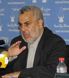 Abdelilah Benkirane during a meeting